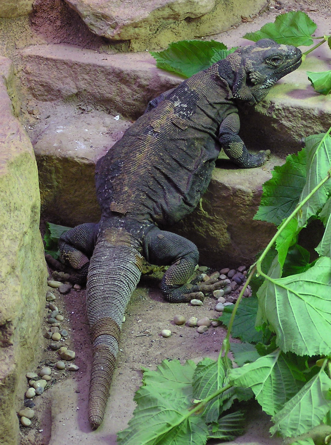 Western chuckwallah Sauromalus ater at Bristol Zoo, Bristol, England. (Note that this was lizard was once known as Sauromalus o. obesus but the mame has now been changed to Sauromalus ater.)